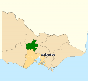 This image incorporates data that is: © Commonwealth of Australia (Australian Electoral Commission) 2009 Division of Bendigo 2010